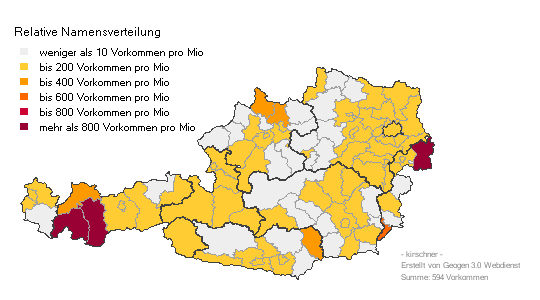 Genealogic map of the surname Kirschner in Austria